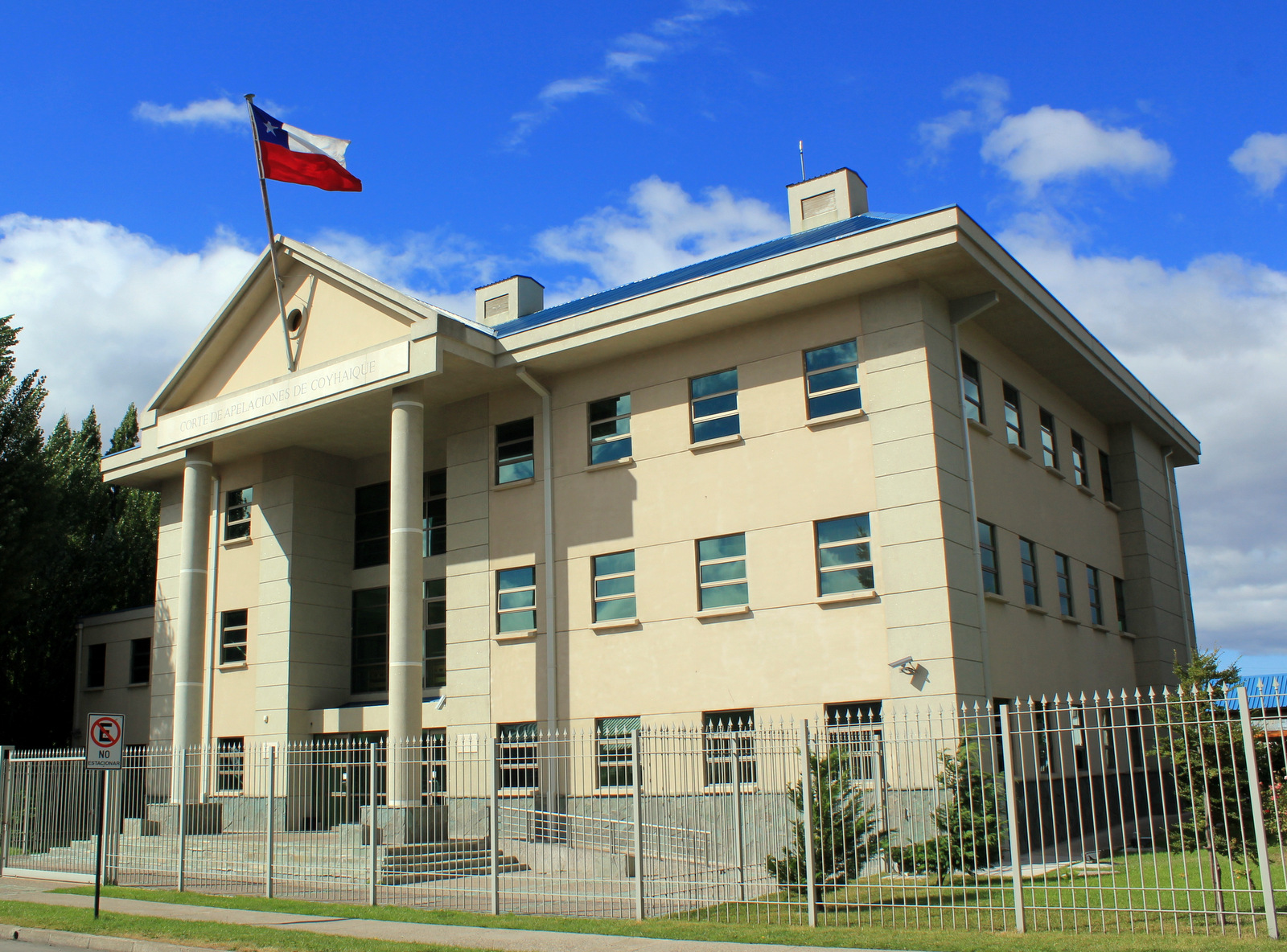 Court of Appeals of Coyhaique